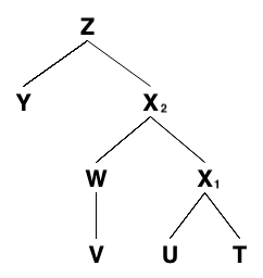 Syntax tree used to help explain c-command.